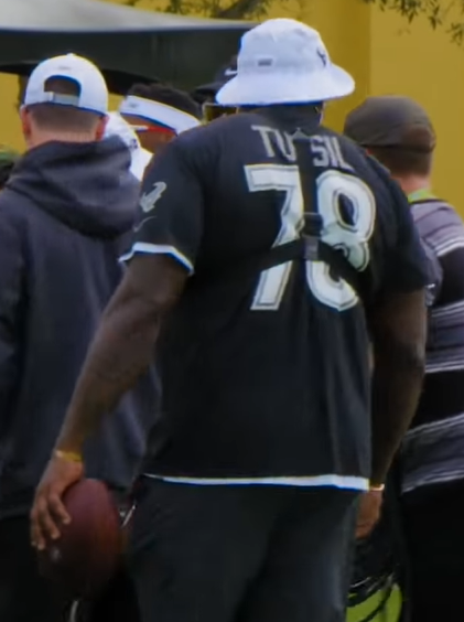 Laremy Tunsil in 2020